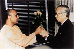 Sri Chinmoy and U Thant in the UN Headquarters New York 29th February 1972.